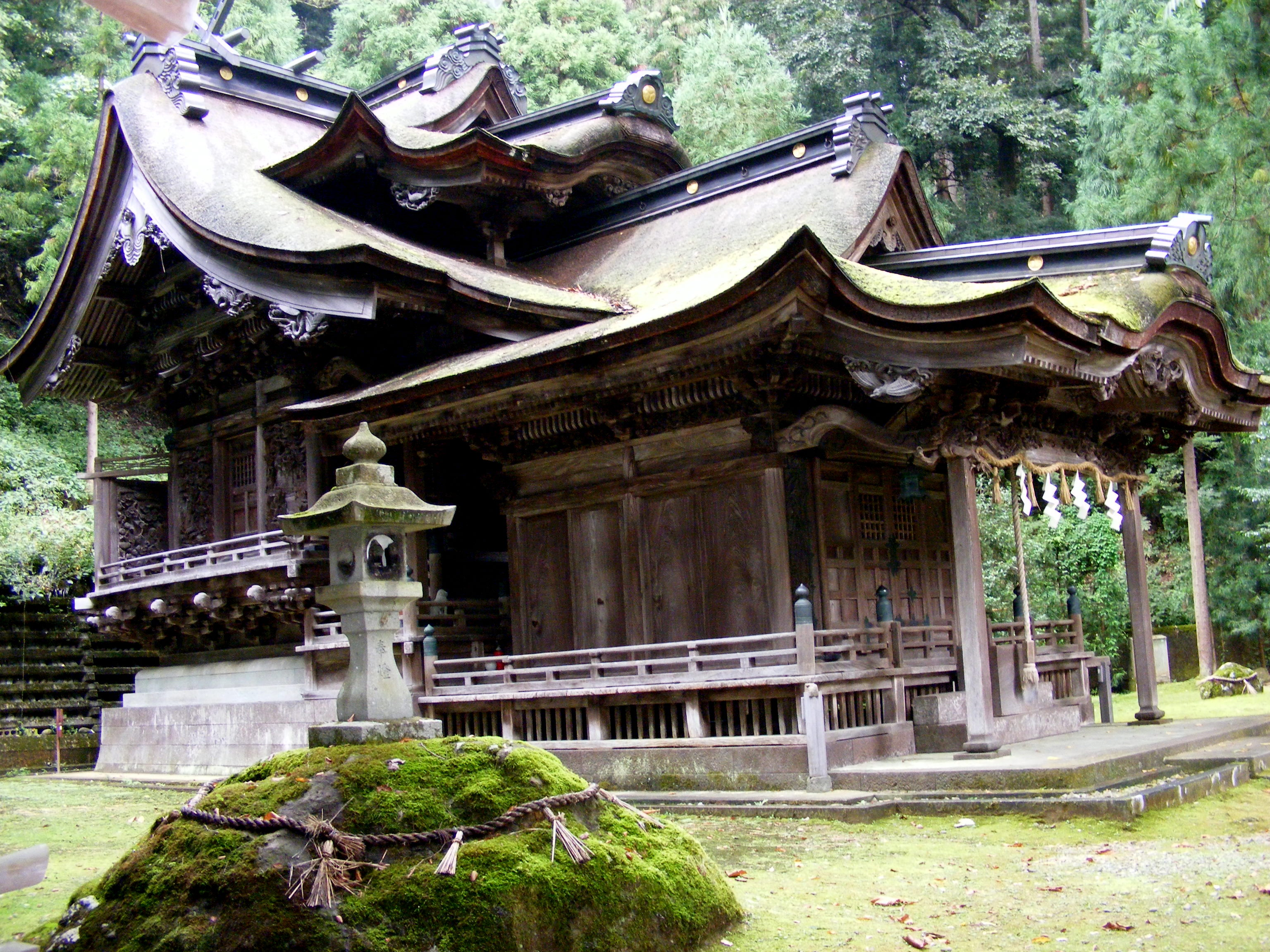 Otaki Shrine in Echizen City